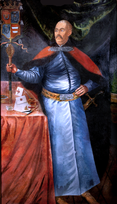 Portrait of Marek Matczyński (1631-1697)